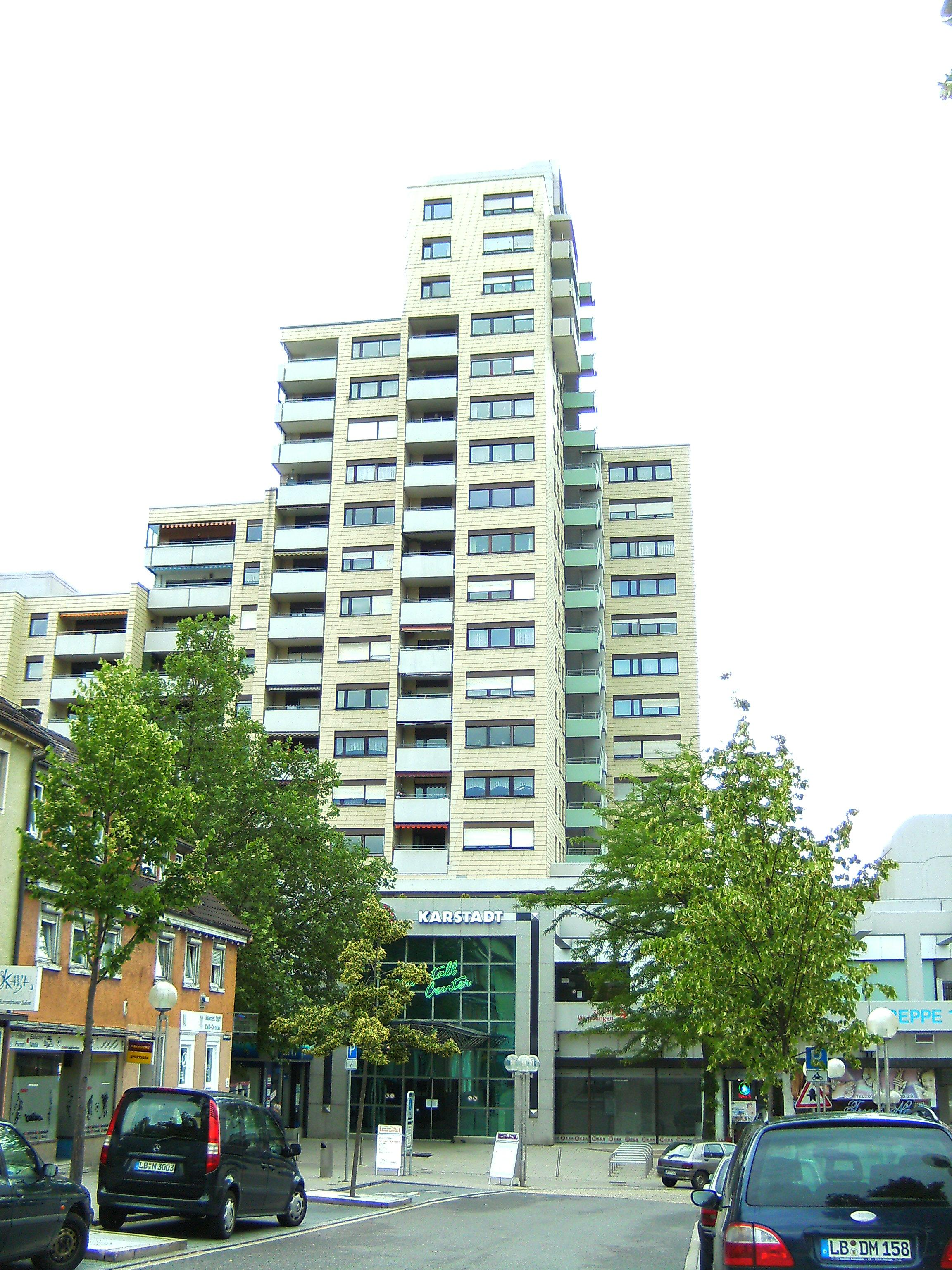 Marstall-Center, one of the highest highrise-buildings in Ludwigsburg, Baden-Wurttemberg, Germany